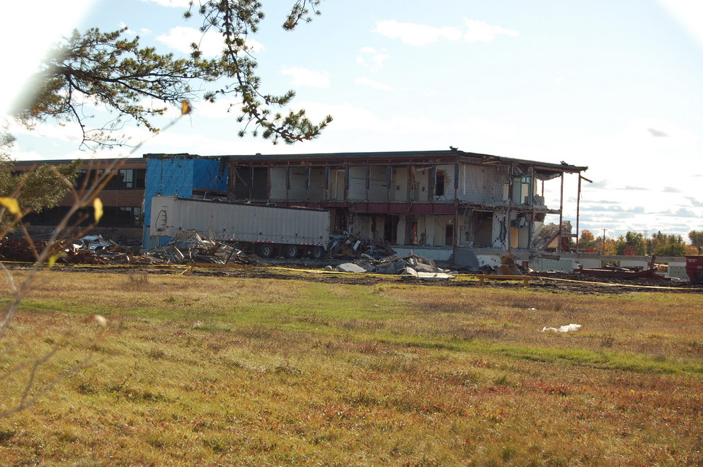 Laurentian High School Ottawa ON demolition